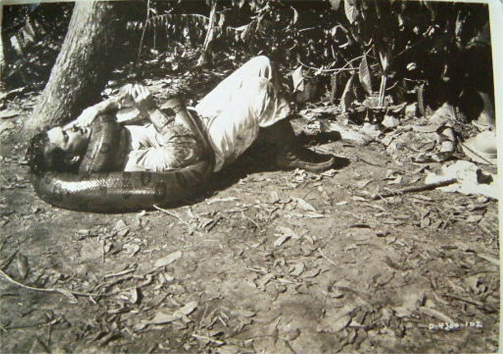 Copyright of Jacare not renewed, film now public domain. This fact can be verified here [1] Source: personal collection